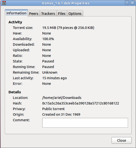 A screenshot of Transmission 1.10, showing the details of a torrent. Category:Screenshots of Linux software